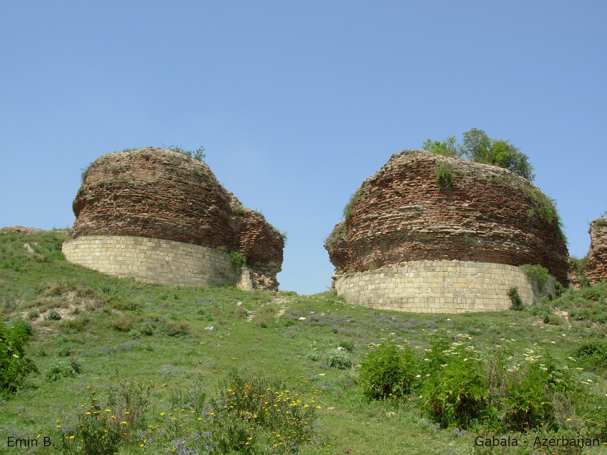 The ruins of Ancient Gabala